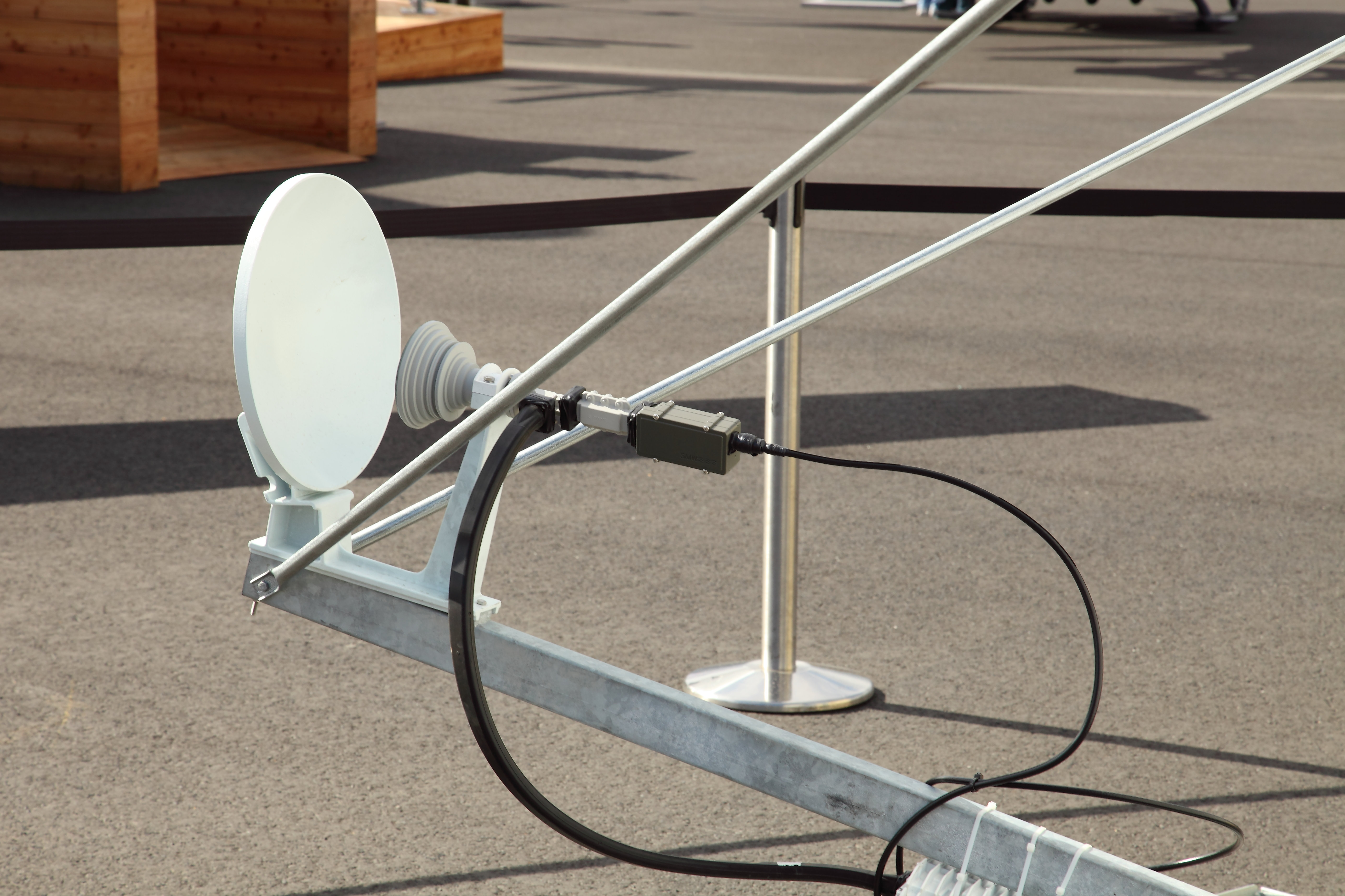 ILA Berlin Air Show 2012